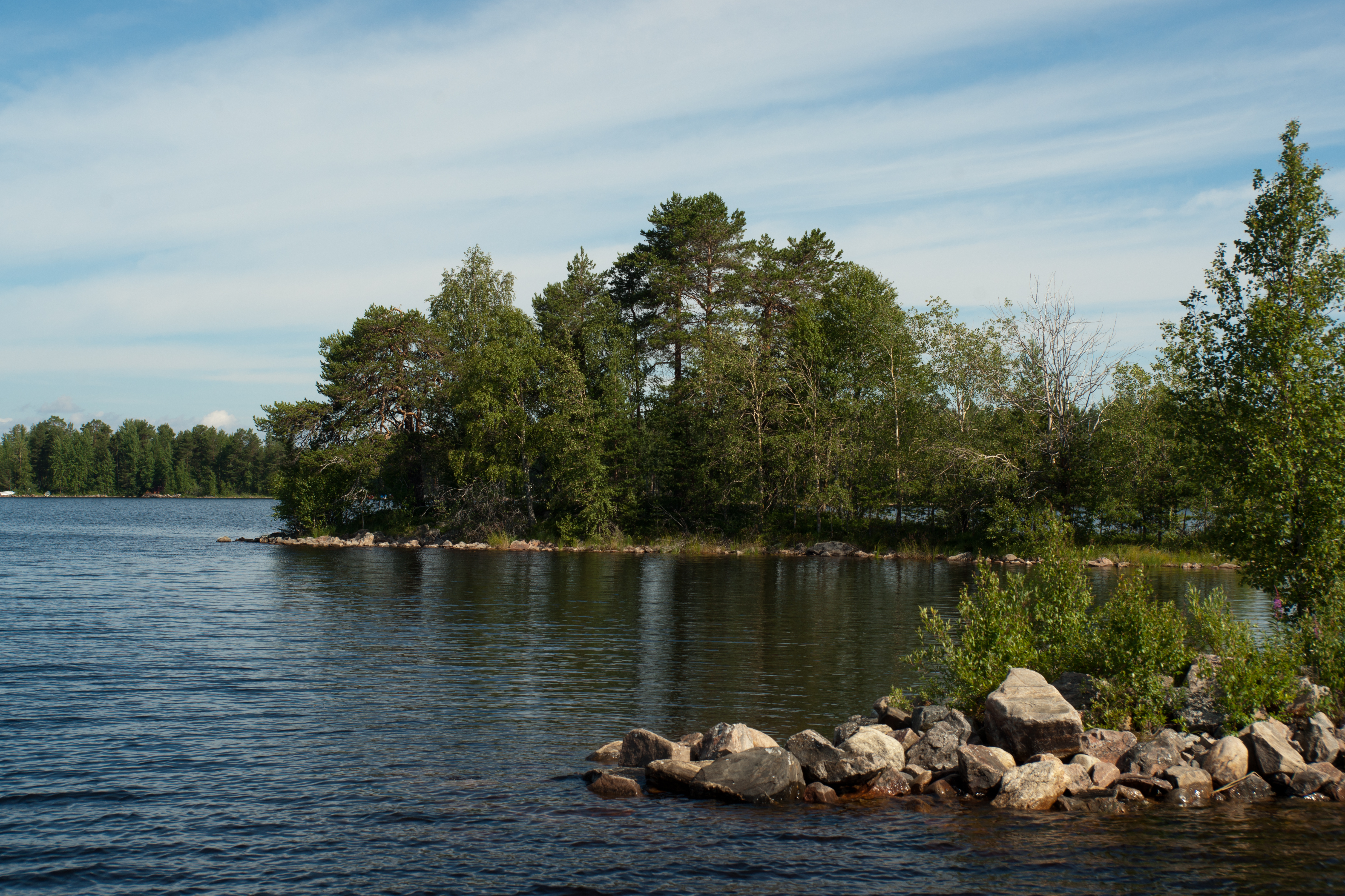 Lake Oulujärvi in Vaala, Finland